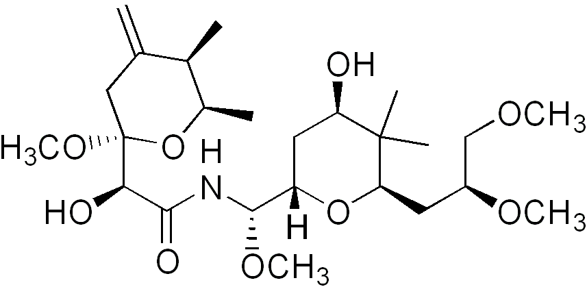 chemical structure of pederin